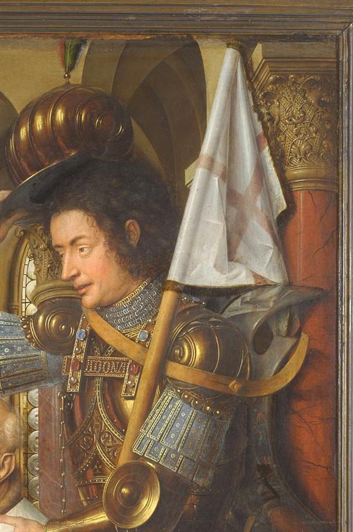 Detail from 'Virgin and Child with Canon van der Paele, showing St. George